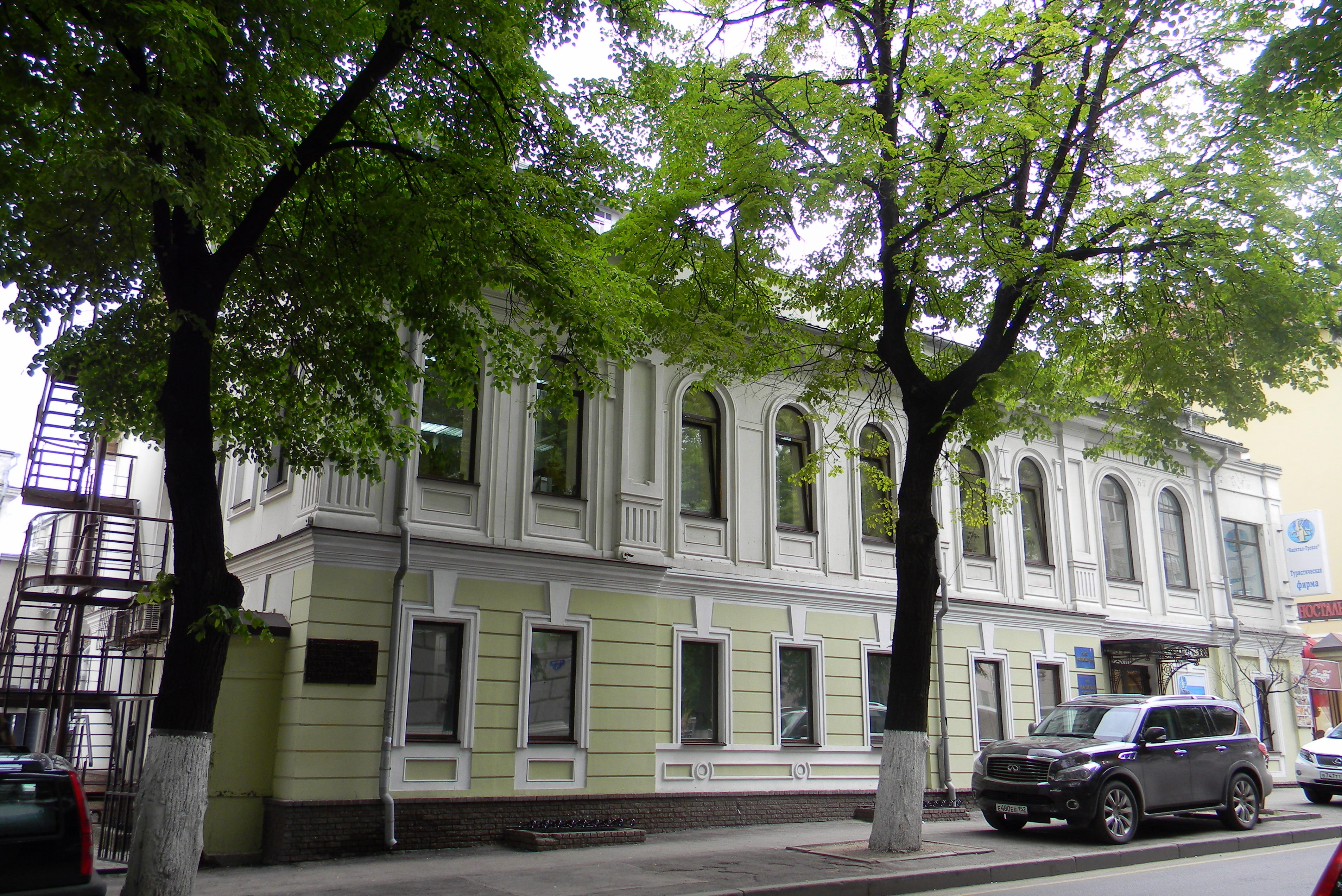 The building No. 4 (built in 1851) at Minina street in Nizhny Novgorod